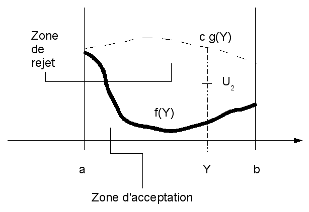 Rejection Sampling method